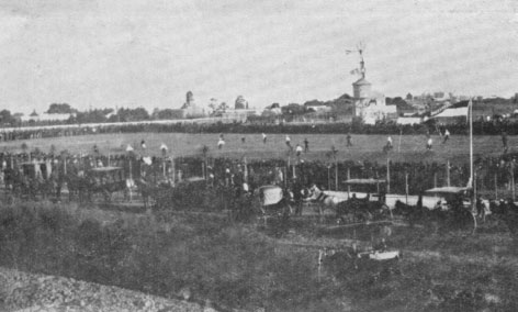 Parque Central (Football Stadium), Montevideo, Uruguay, 1900